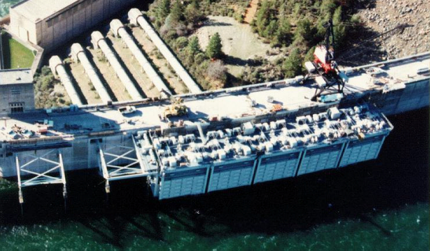 View of Shasta Dam in northern California showing the TCD (Temperature Control Device) Reclamation installed in the 1990s to control downriver temperatures for spawning salmon